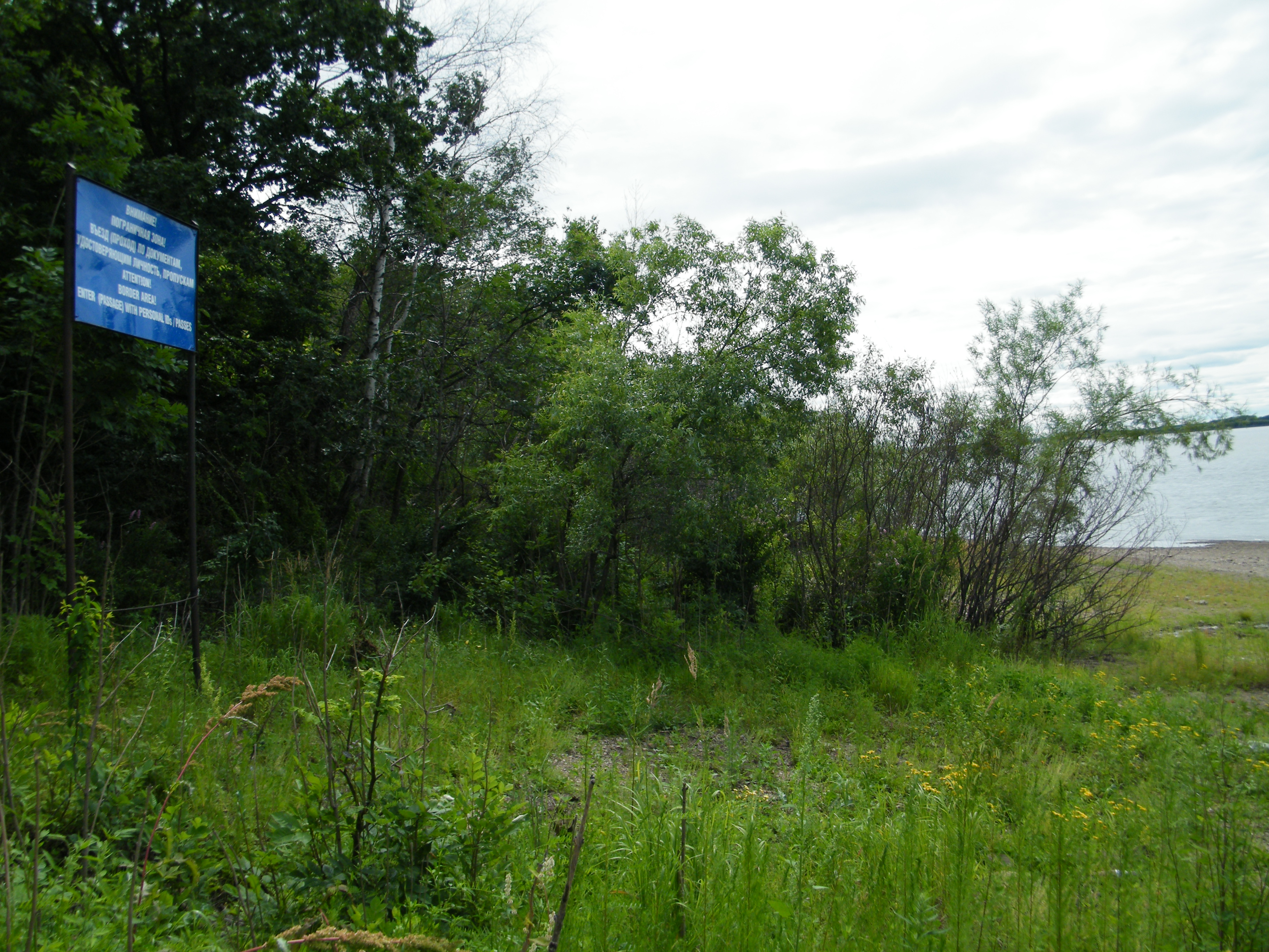 Amurskaya protoka